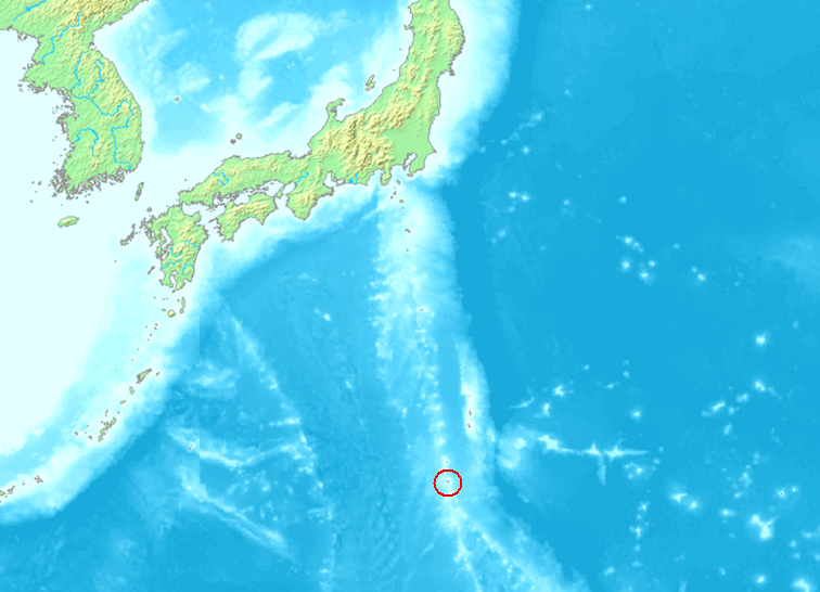 Location of Iwo Jima, Volcano Islands, Japan